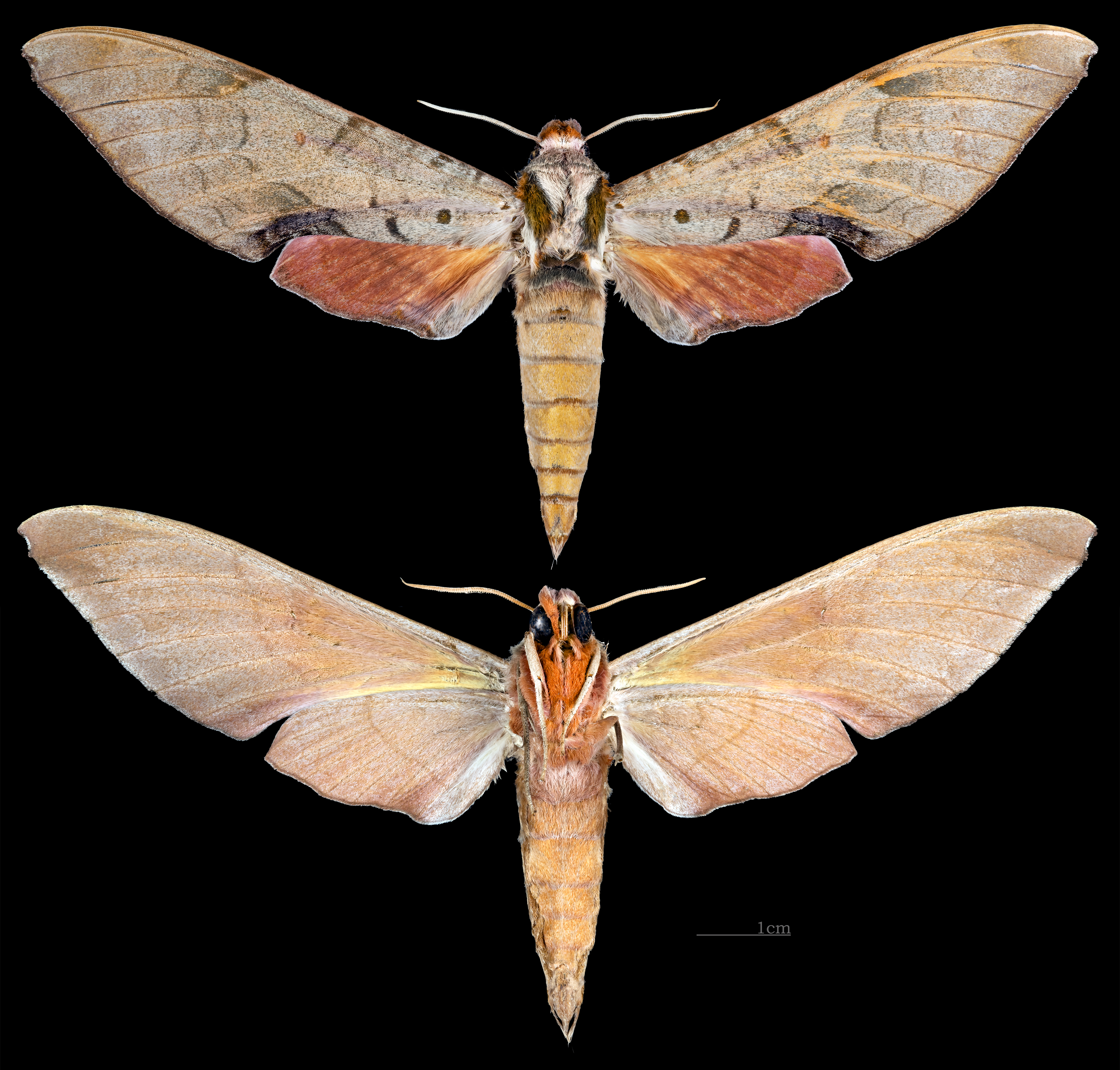 Protambulyx carteri - Two views of same specimen Collection of the Mathematician Laurent Schwartz